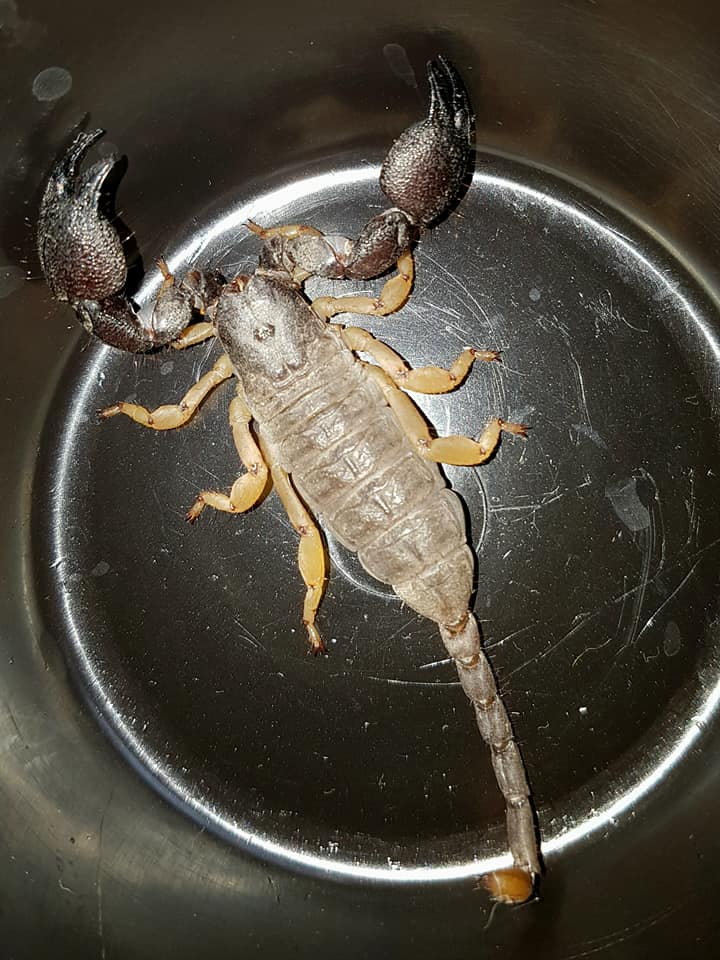 Cheloctonus jonesii - near Orpen in Kruger National Park, Limpopo, South Africa